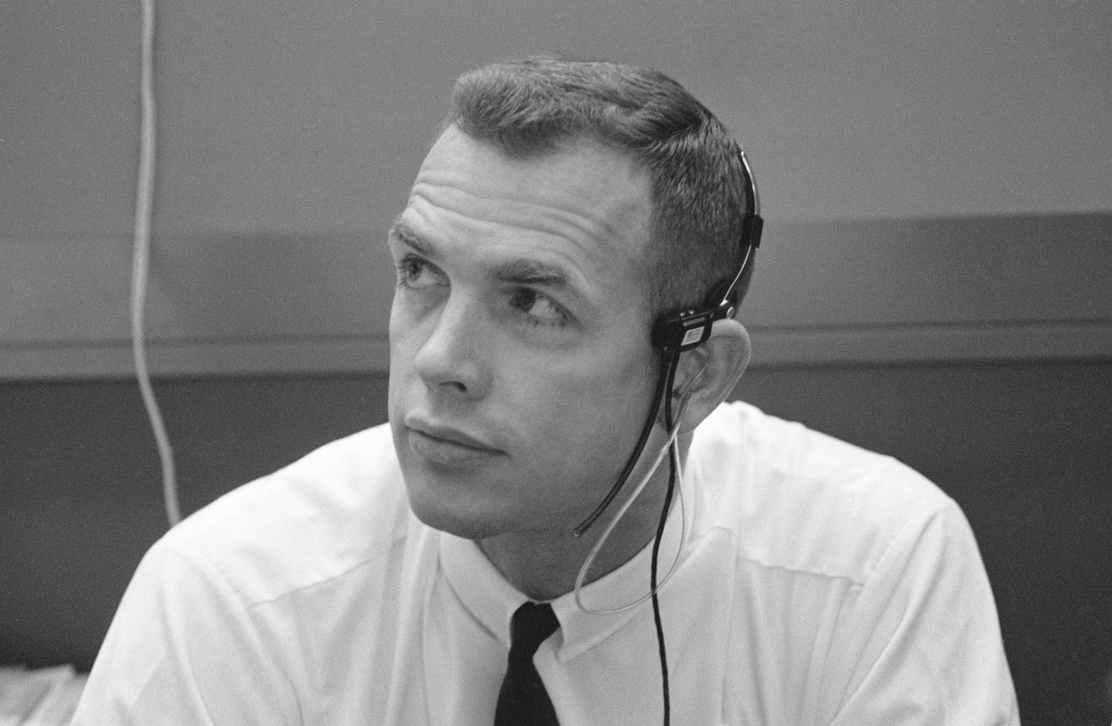 NASA astronaut David R. Scott in the Mission Operations Control Room (MOCR) of the Mission Control Center (MCC) watching Neil Armstrong and Buzz Aldrin's walk on the Moon during the Apollo 11 mission. NASA photo S69-39590 in public domain.